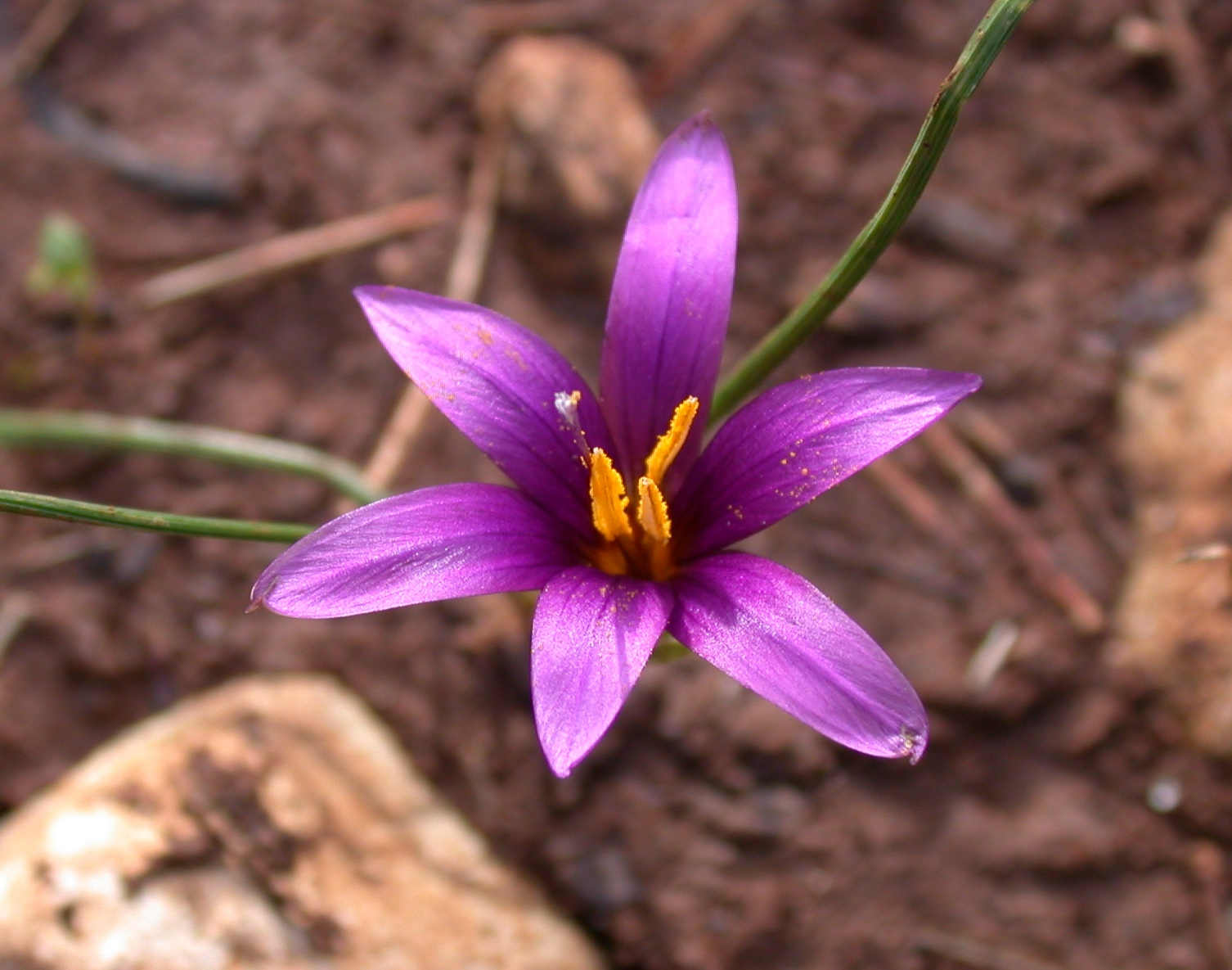 Romulea phoenicia Mouterde (רומוליאה צידונית) at male stage, Mount Carmel, Israel, December 30, 2005.